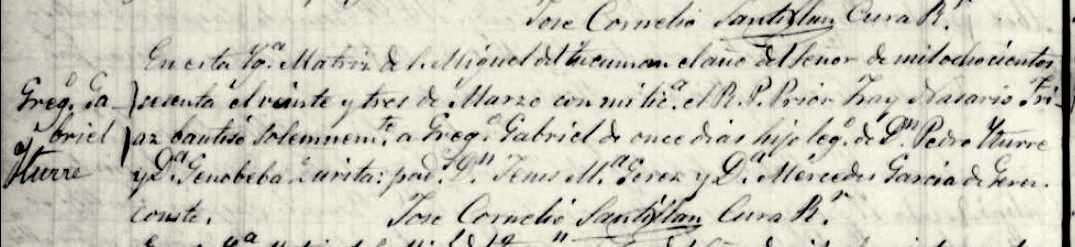 Gabriel Iturri, birth, (christening certificate), Cathedral San Miguel de Tucumán, Christenings 1860. Transcription: «En esta Iglesia Matriz de San Miguel de Tucumán, el año del Señor de milochocientos sesenta, el veinte y tres de Marzo, con mi licencia, el R. P. Prior Fray Nasario Frías bautisó solemnemente a Gregorio Gabriel de once días, hijo legítimo de Don Pedro Iturre y Doña Genobeba Zurita: Padrinos Don Jesús María Gerez y Doña Mercedes García de Gerez. Conste. [firma:] José Cornelio Santillán, Cura, Rv.»